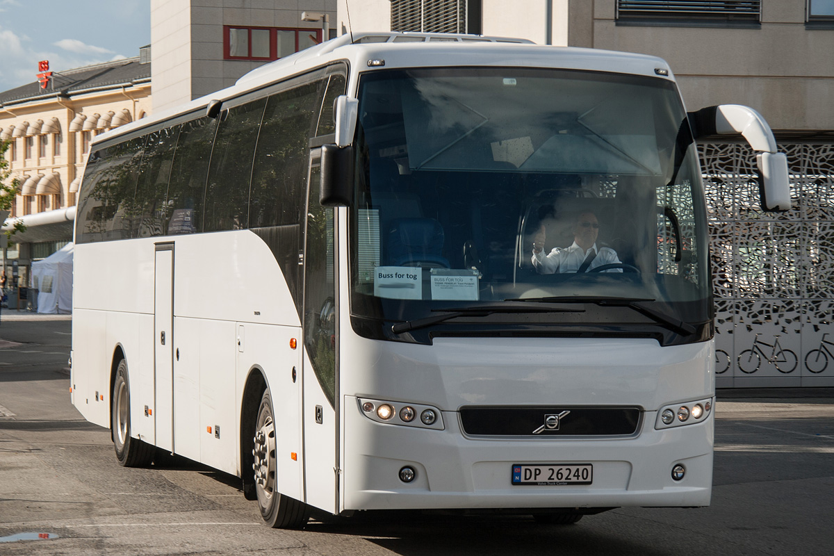 Volvo 9500 Euro6 demonstrator.